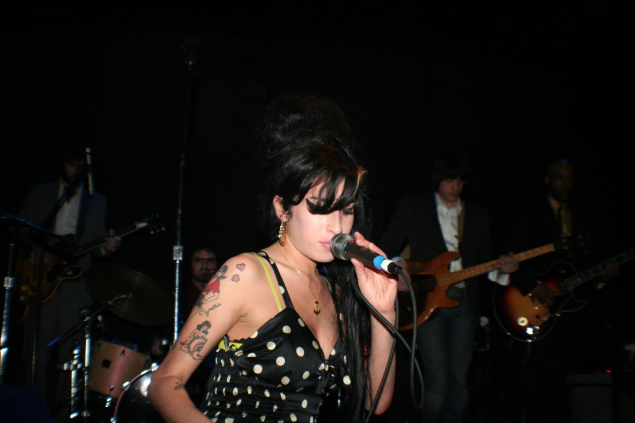 Amy Winehouse at Bowery Ballroom, March 2007